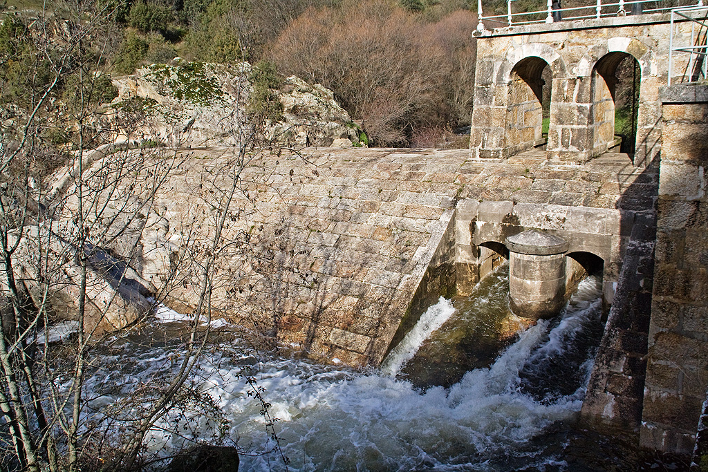 El Mesto reservoir in the Spanish province of Madrid